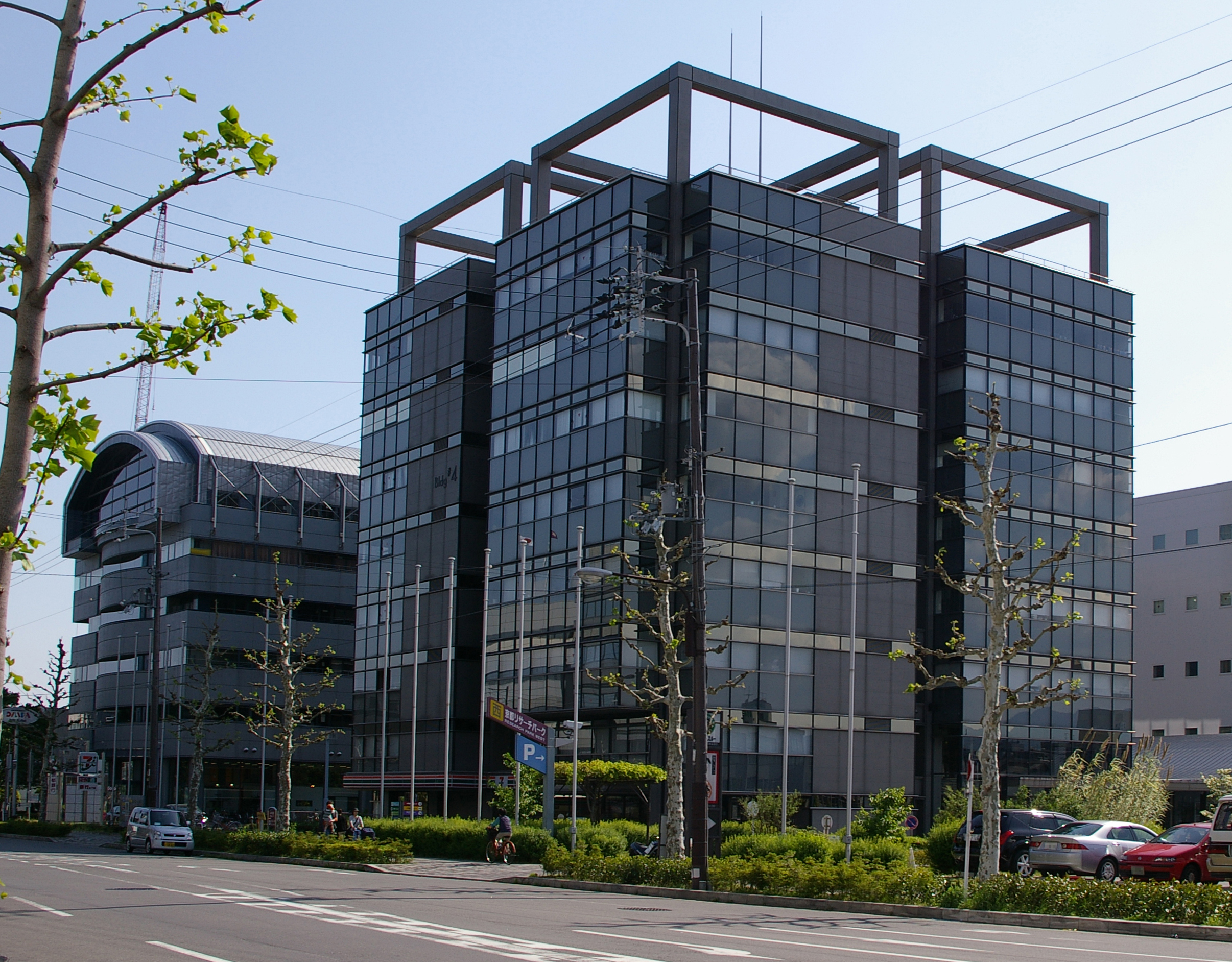 Photograph of Kyoto Research Park (West area) in Shimogyo-ku, Kyoto, Kyoto Prefecture, Japan.